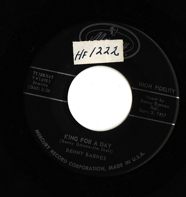 King for a Day by Benny Barnes, Mercury 1957.